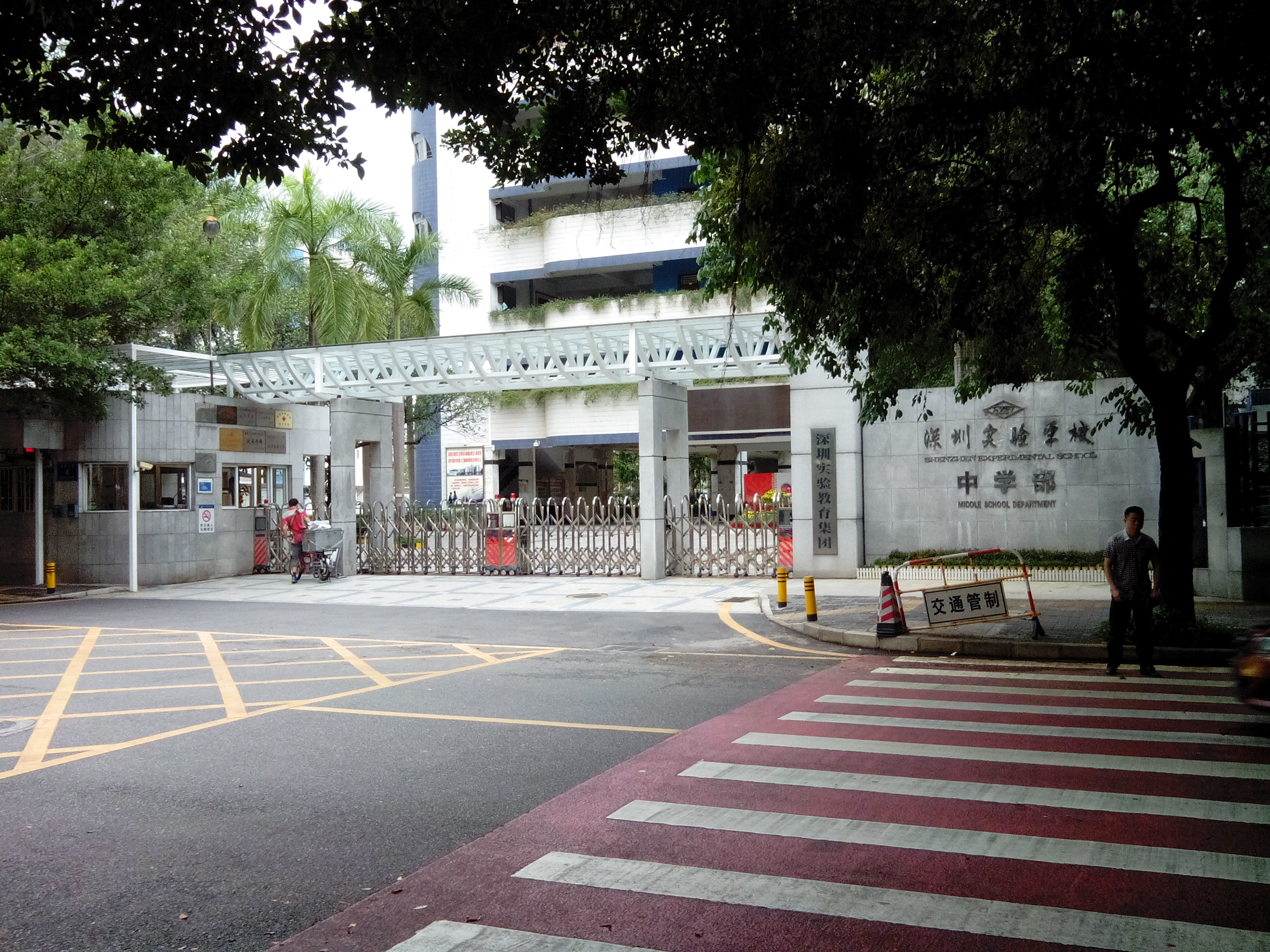 This is the gate of Shenzhen Experimental School Middle School Department.